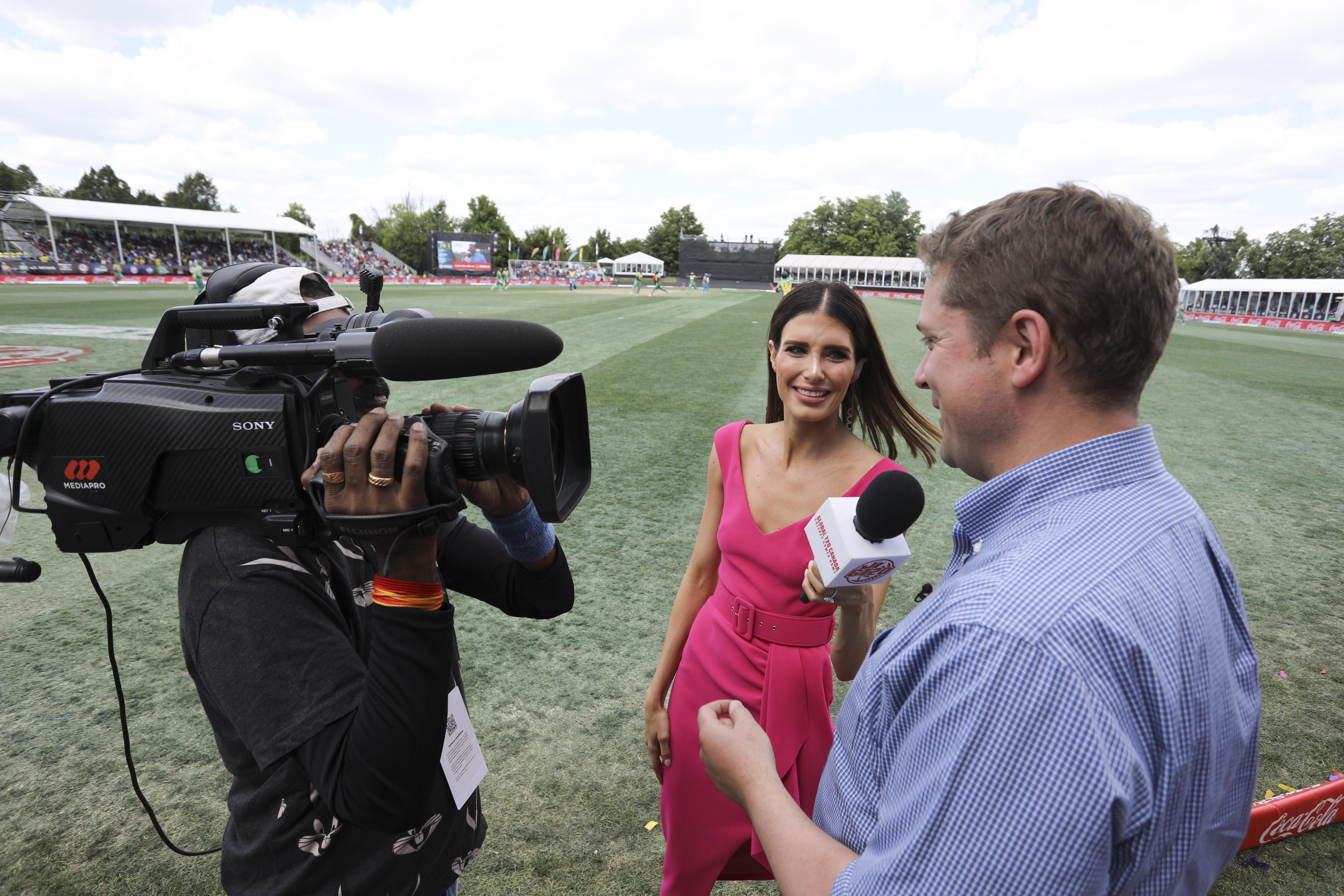 I had a lot of fun with Arpan Khanna, Murarilal Thapliyal and the thousands of fans watching the hard fought GT20 Canada Cricket final. Also spoke with Erin Holland. Cricket is a fast growing sport in Canada and if you have never seen a match, I would highly recommend checking one out!